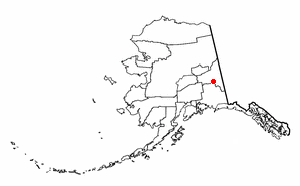 Adapted from Wikipedia's AK borough maps by Seth Ilys.